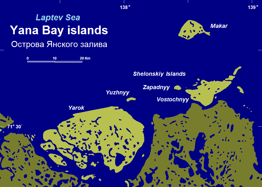 color map